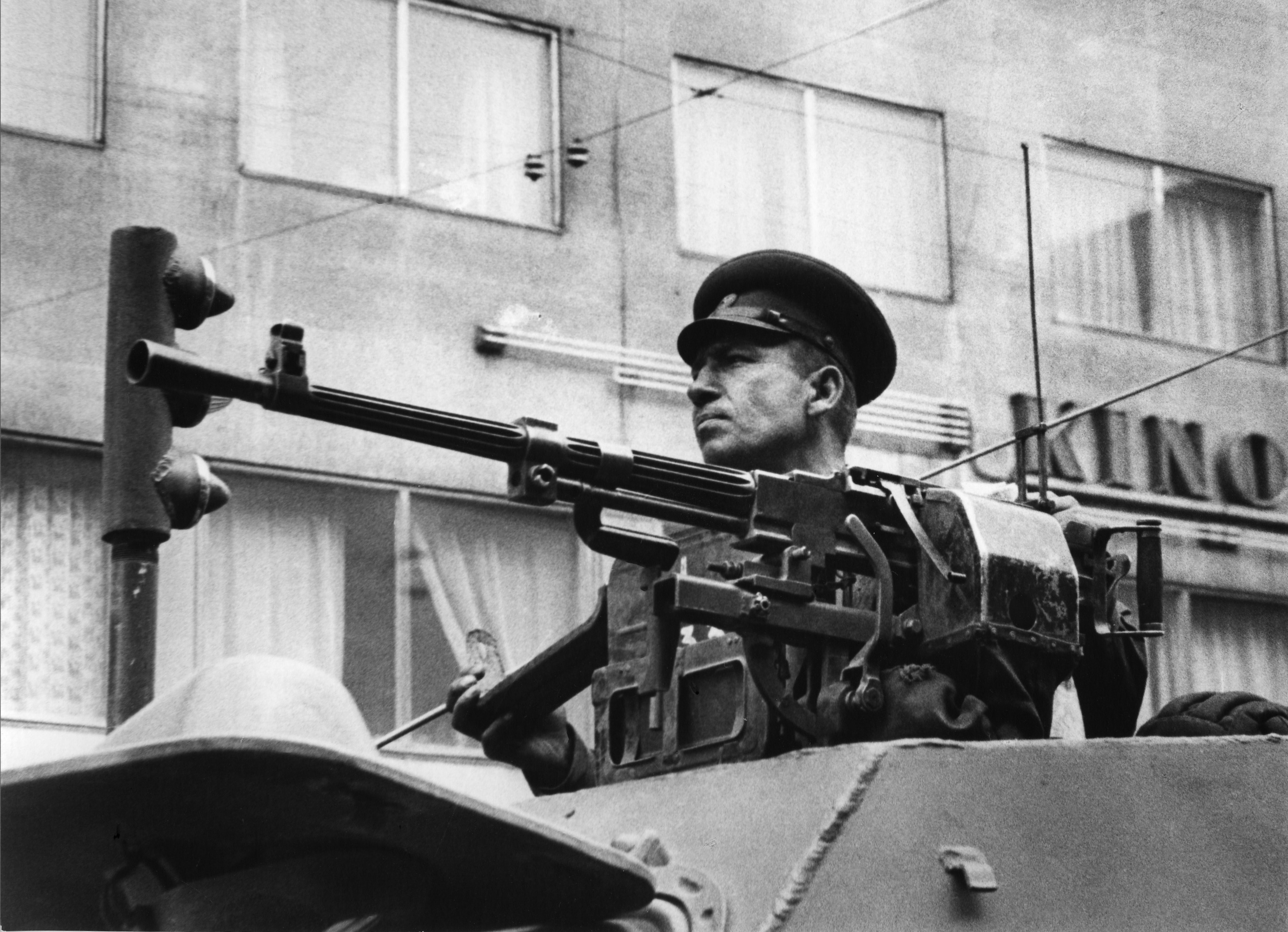 Soviet armored scout car "BRDM-1" with machinegun "SGMB" (modification of SG-43) during Warsaw Pact invasion of Czechoslovakia, August '68.